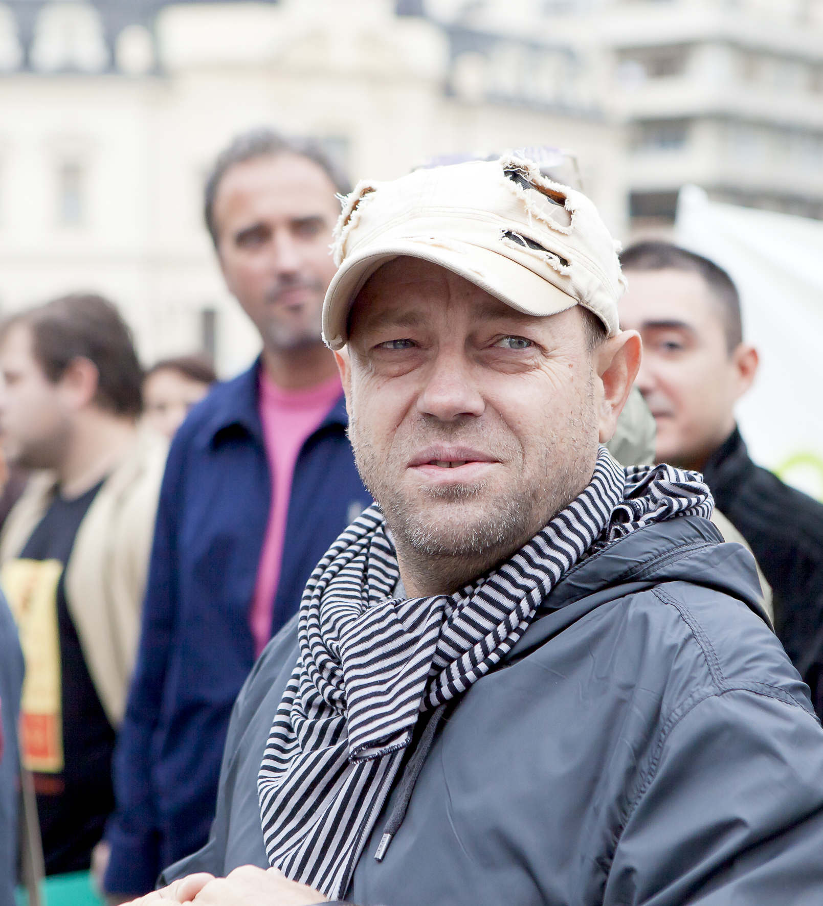 Liviu Mihaiu, in October 2010